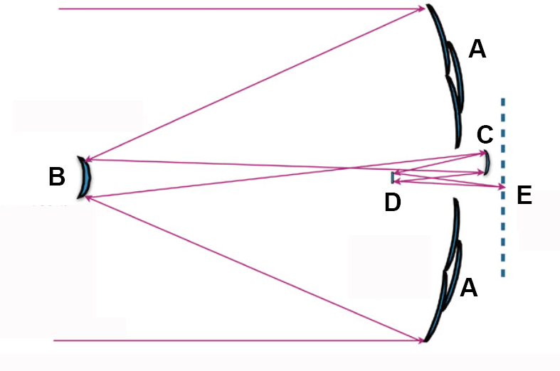 JWST optical layout